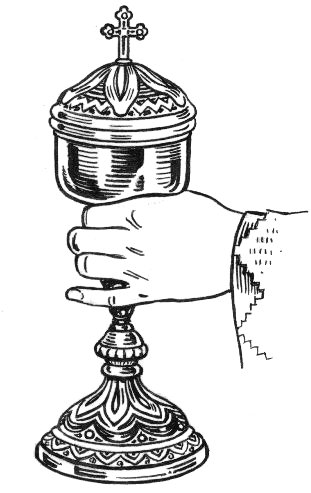 Line art drawing of a ciborium.